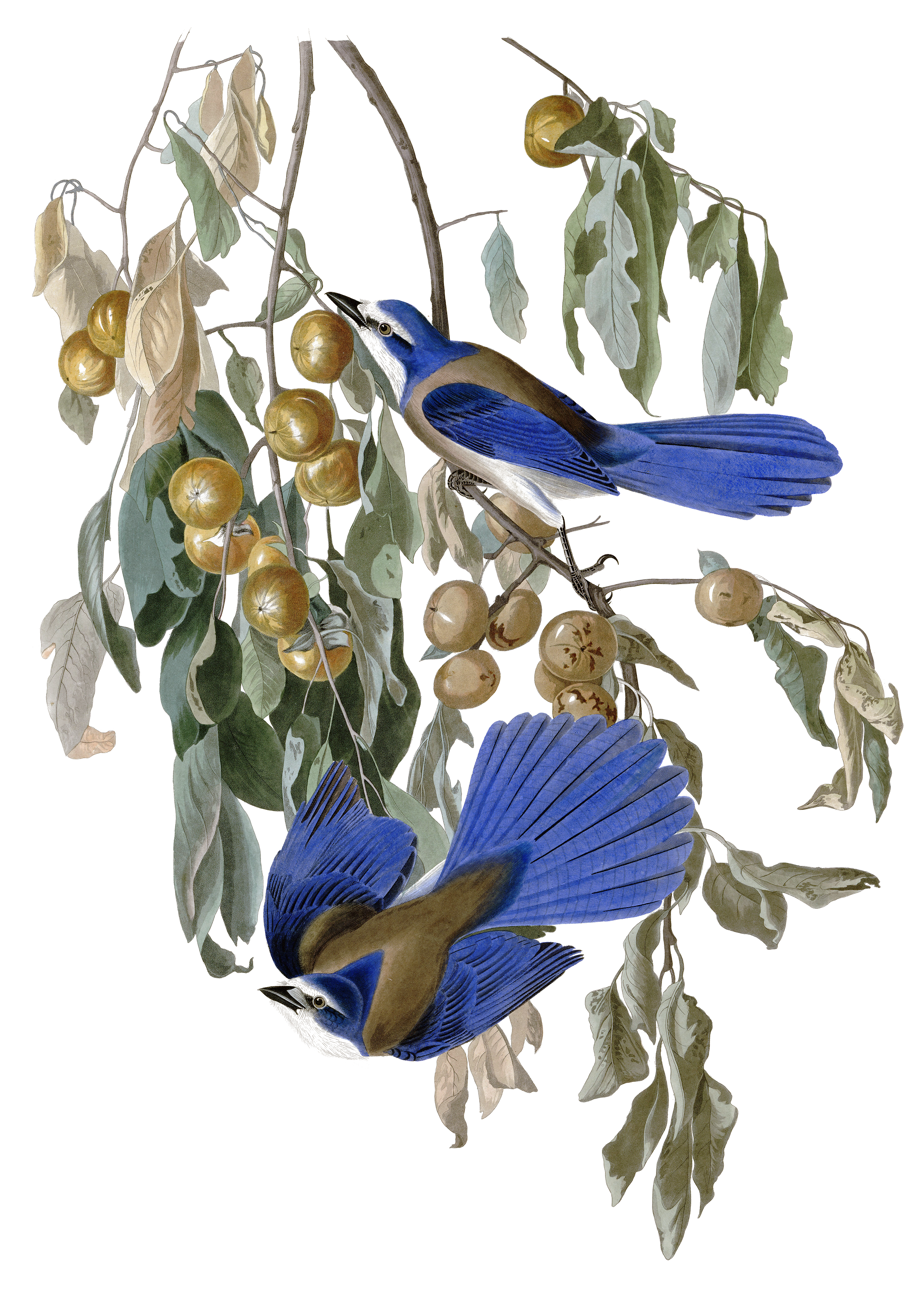 Plate 87 of Birds of America by John James Audubon depicting Aphelocoma coerulescens (Florida Jay) on Diospyros virginiana (Persimmon tree)